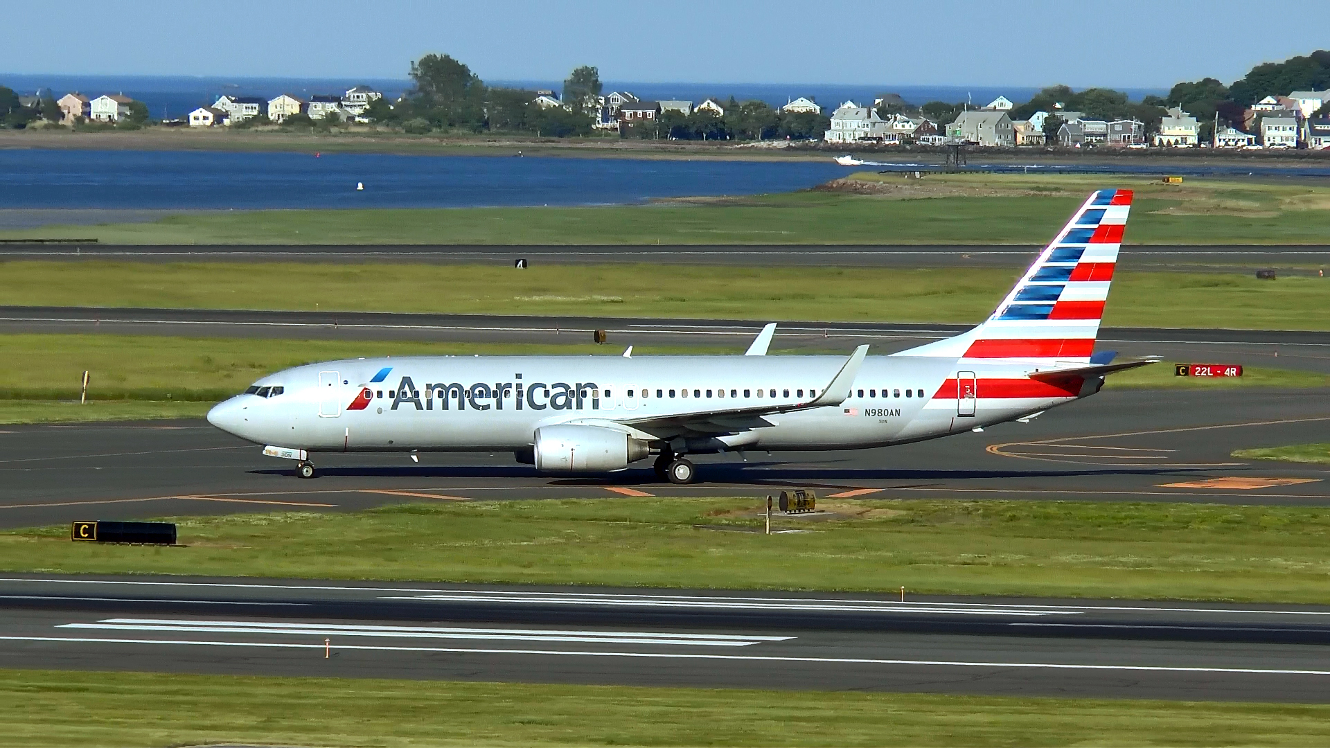 American Airlines new colors as it merges with US Airways. Seen here arriving at Logan Airport Boston, Massachusetts USA.